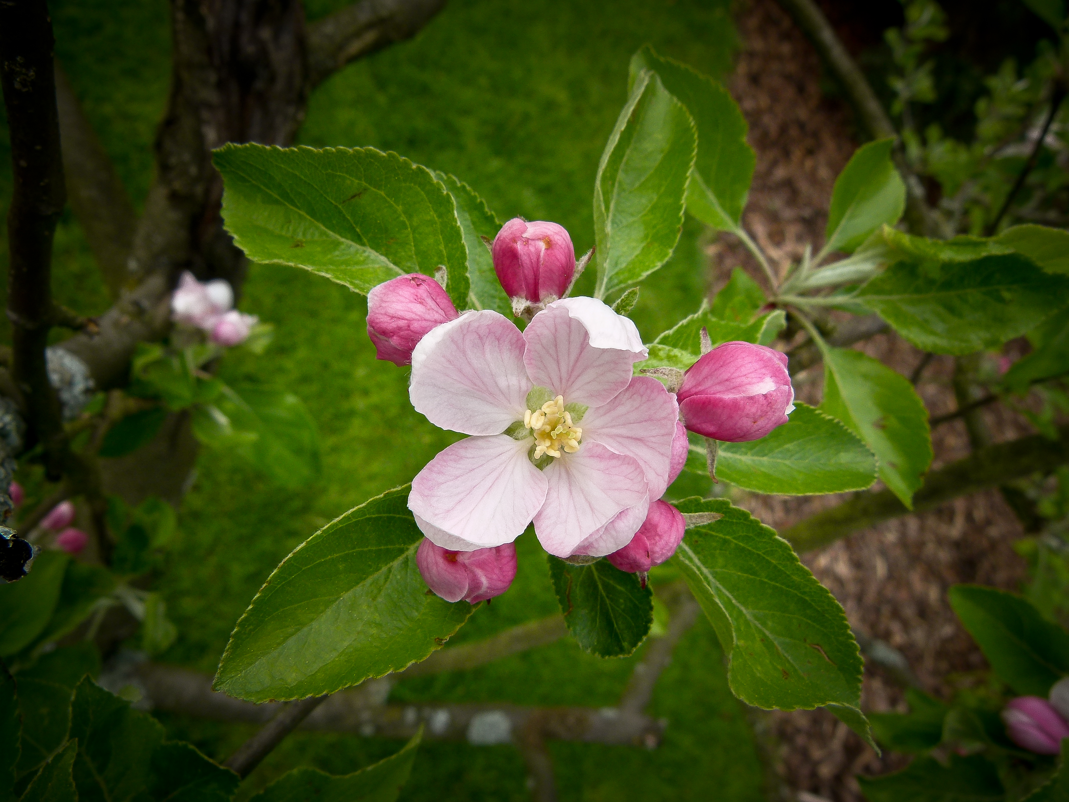 Apple blossom - in April